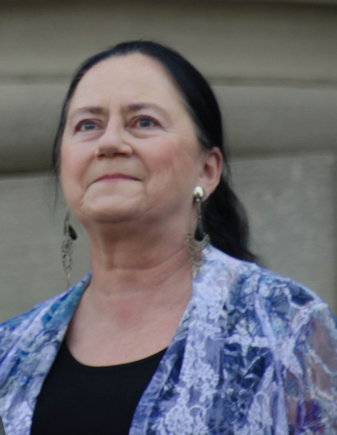 Debbie Jabbour at the 2015 Alberta Premier/Cabinet swearing-in ceremony, by Connor Mah.